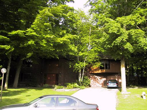 Author: me